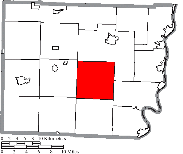 Map of the municipal and township boundaries of Belmont County, Ohio, United States, as of the 2000 census, with the location of Smith Township highlighted. Township borders are shown only in unincorporated areas in order to differentiate incorporated and unincorporated areas more clearly.